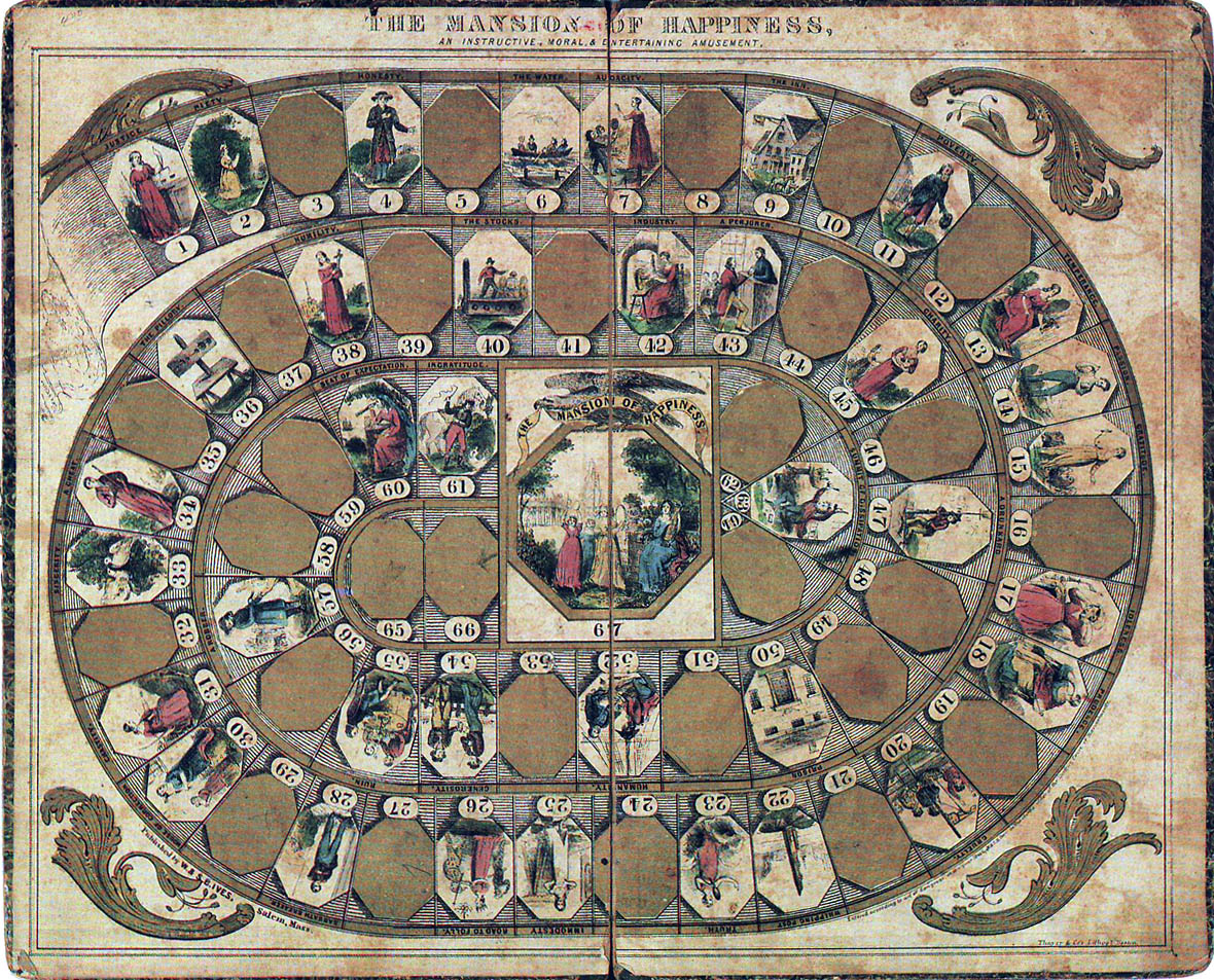 This Ives Printrun is the first edition printrun based on two important reasons: 1) The Krim Collection had the exact same printrun which had a message written in the upper left corner of the game: "Merry Christmas, 1843" listing the person giving the gift and the person receiving the gift, and 2) this Ives' printrun is almost an exact color copy of the 1801 Mansion of Happiness published in England by Laurie & Whittles in 1801.